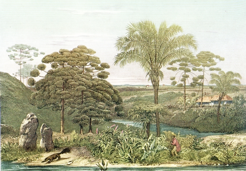 Barbacena on the way to the Minas Gerais.